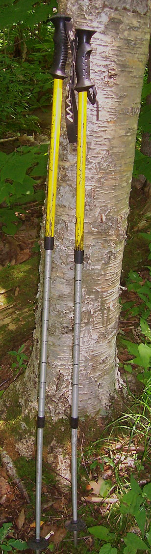 Photographed by Daniel Case on 2005-08-03